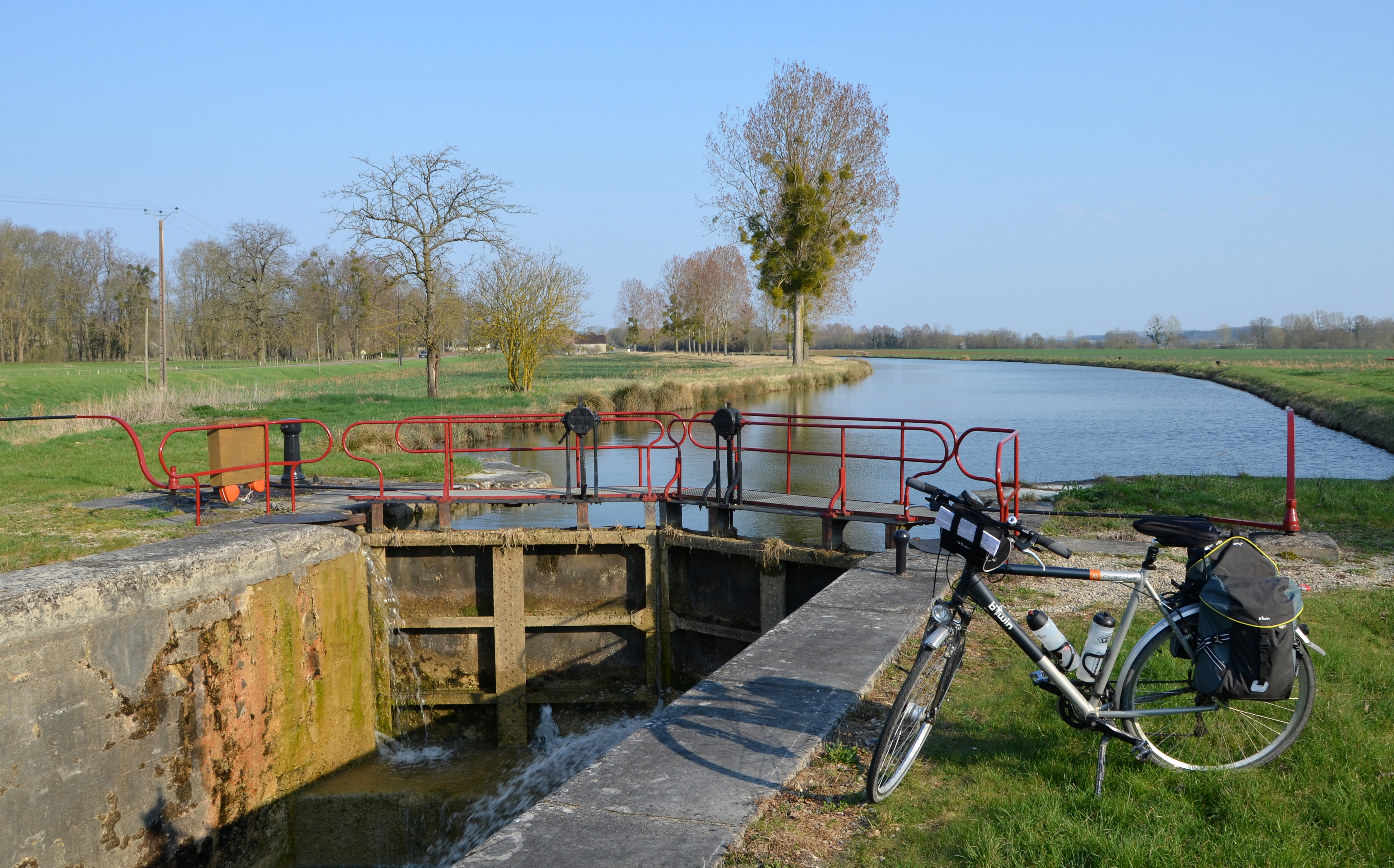 Lock on the canal of Burgundy near Percey , Bourgogne, France